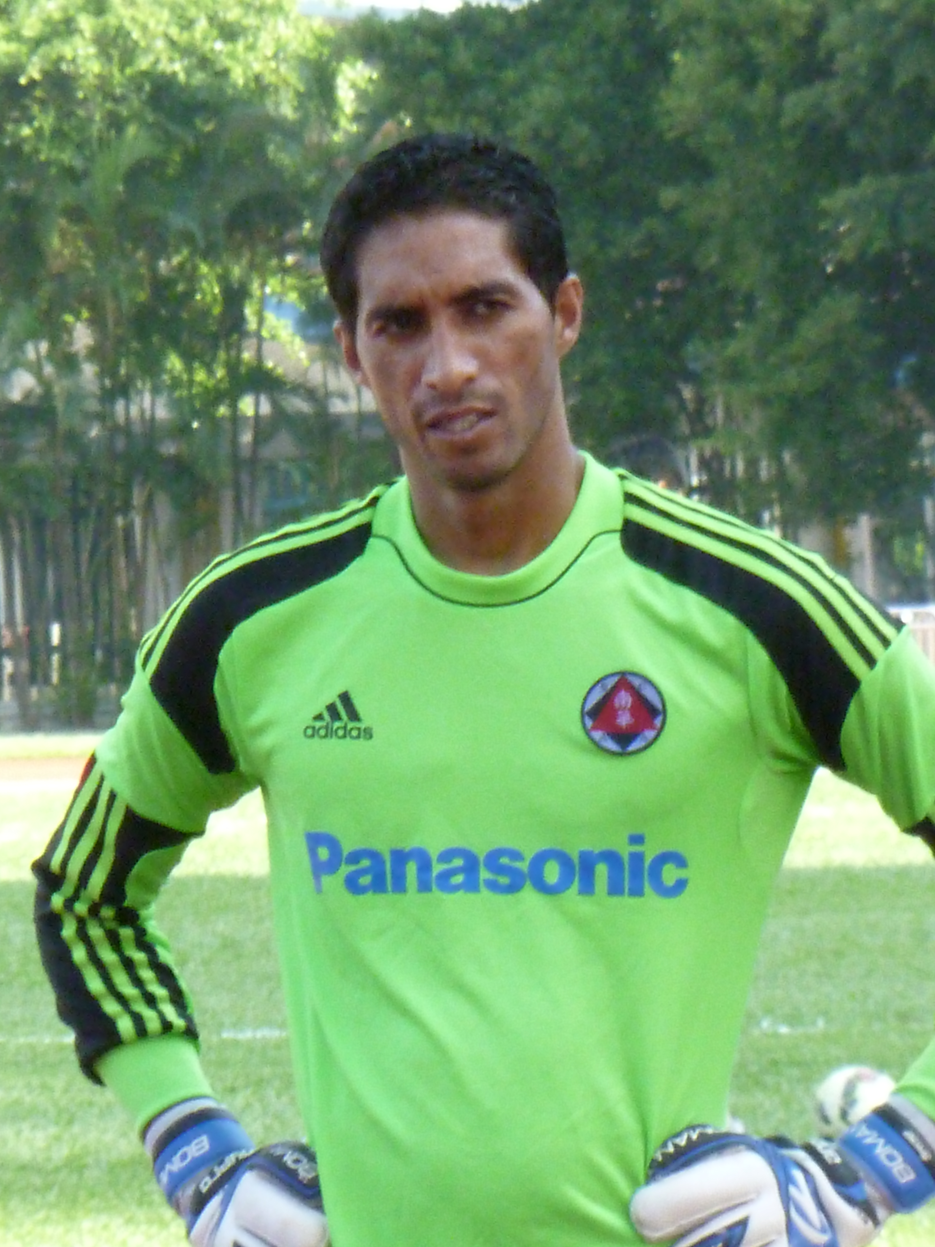 Cristian Mora (18 Sept 2014, Friendly Match, South China vs YFCMD, Siu Sai Wan Sports Ground)中文（香港）: 摩拉 (18 Sept 2014, 友賽, 南華 vs YFC澳滌, 小西灣運動場)